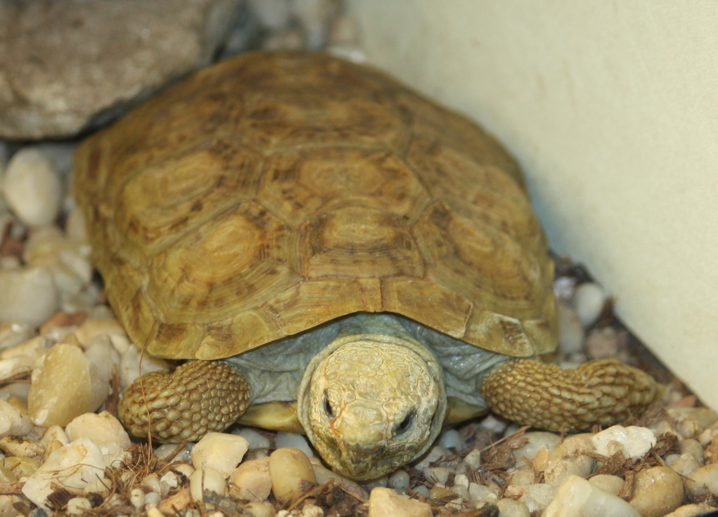 Pancake Tortoise Malacochersus tornieri at Cincinnati Zoo